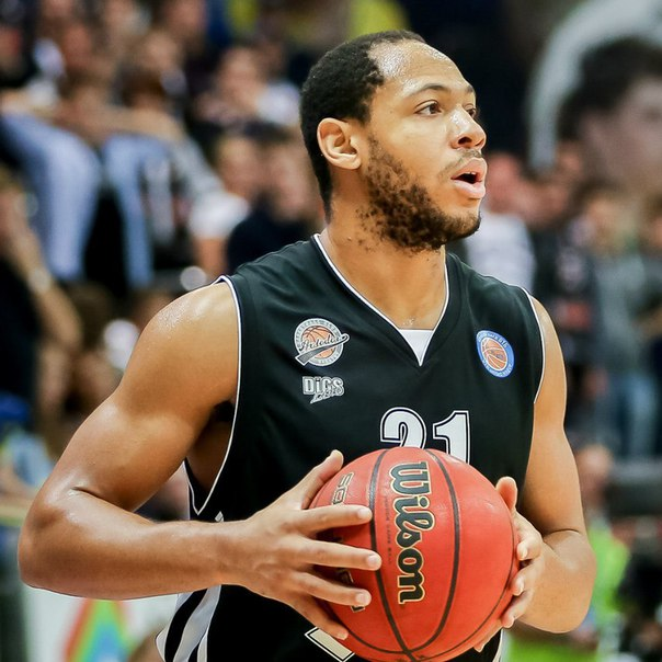 Saratov